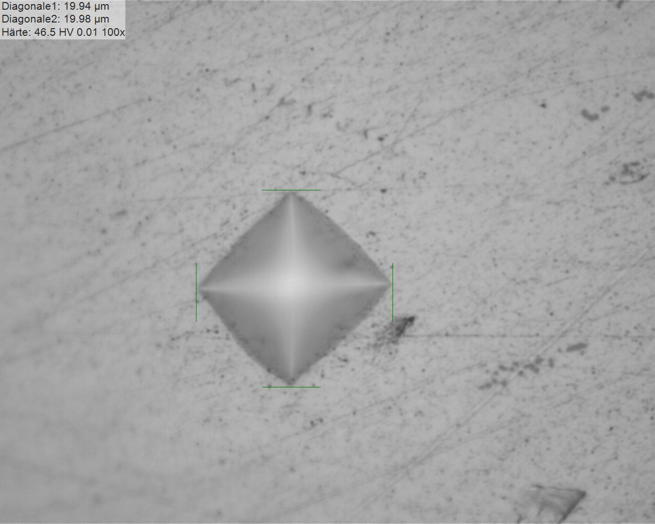 The hardness value is 48,5 HV 0,01. This shows, that the material is soft.